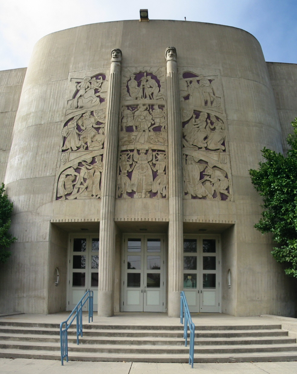 Stitched-together image made from four original photographs of the facade of the King City High School theater in King City, California. Building was finished as a WPA project in 1939. Architect was Robert Stanton, sculptor of the bas-relief was Jo Mora.